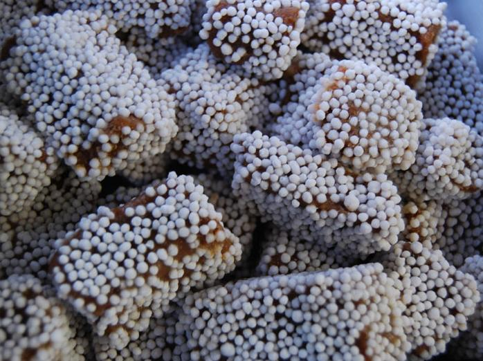 Almora Bal Mithai, Uttarakhand, India